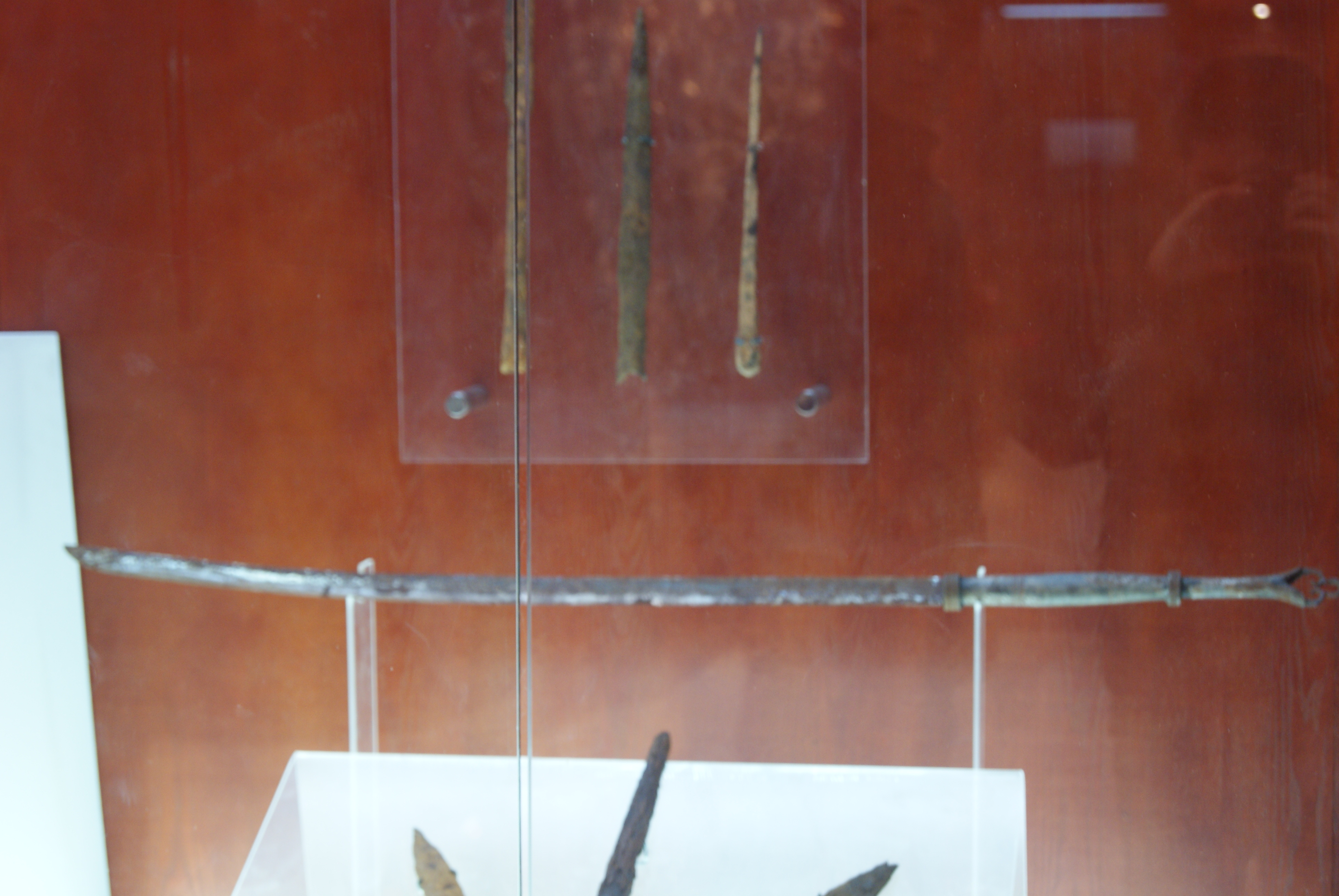 Crown of Nguyen Emperors, Vietnam